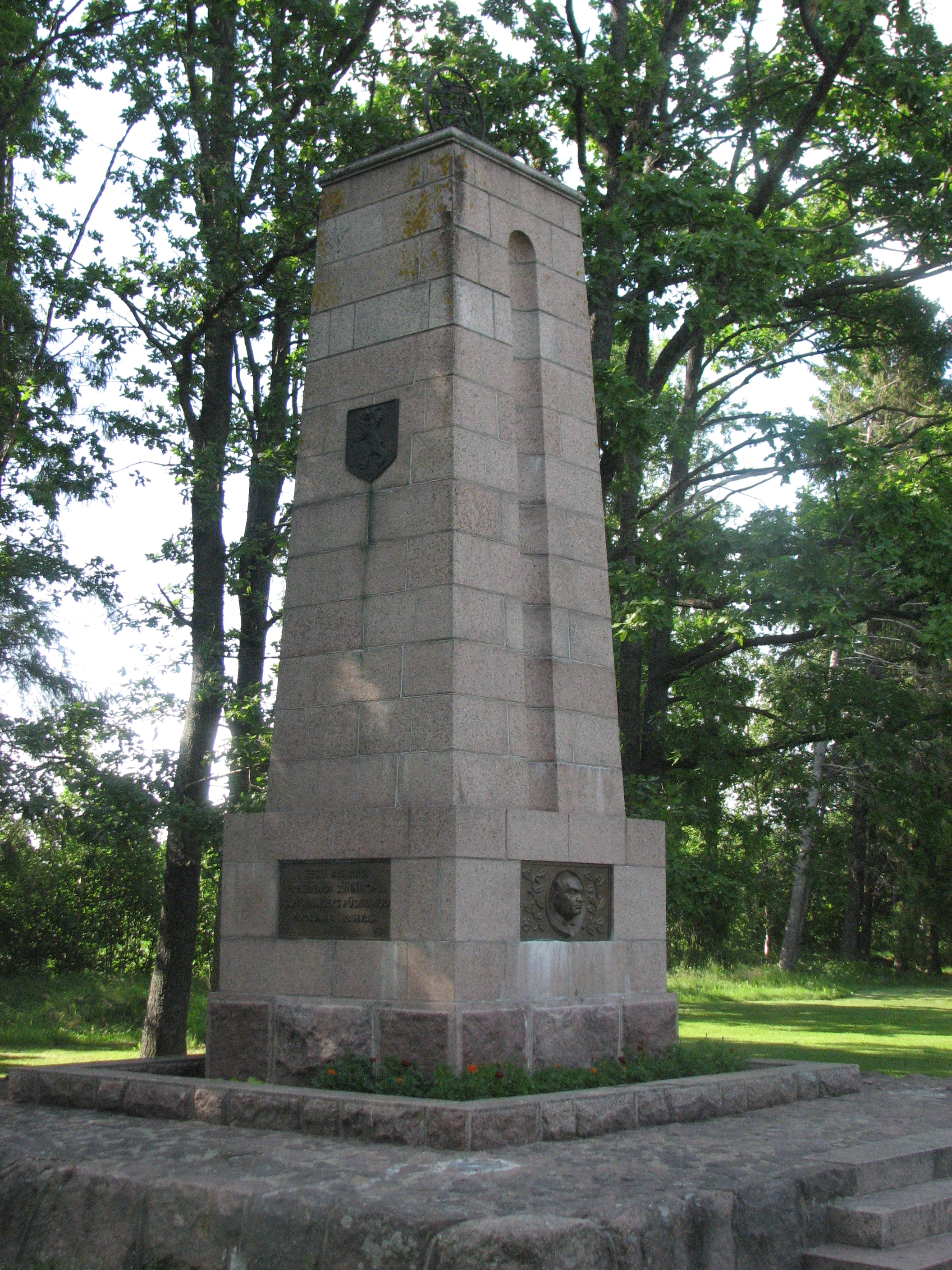 Statue of Konstantin Päts, Estonian president